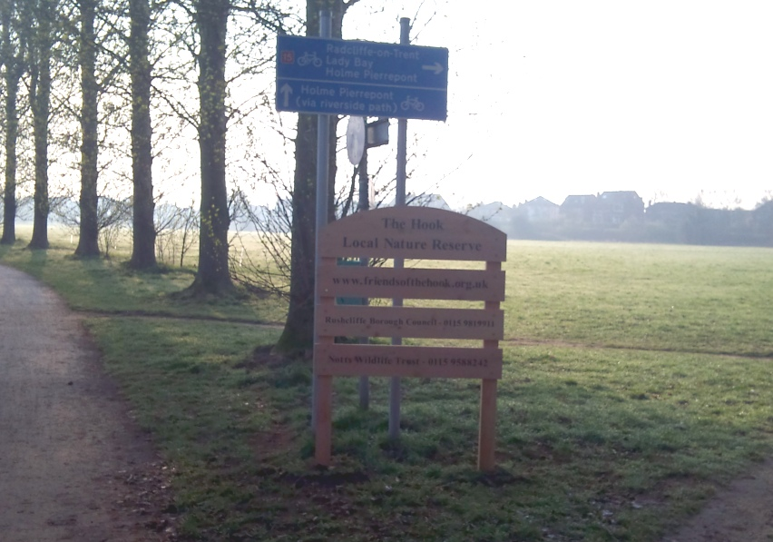 Signage of NCR 15 where it turns away from the River Trent at the entrance to The Hook Local Nature Reserve